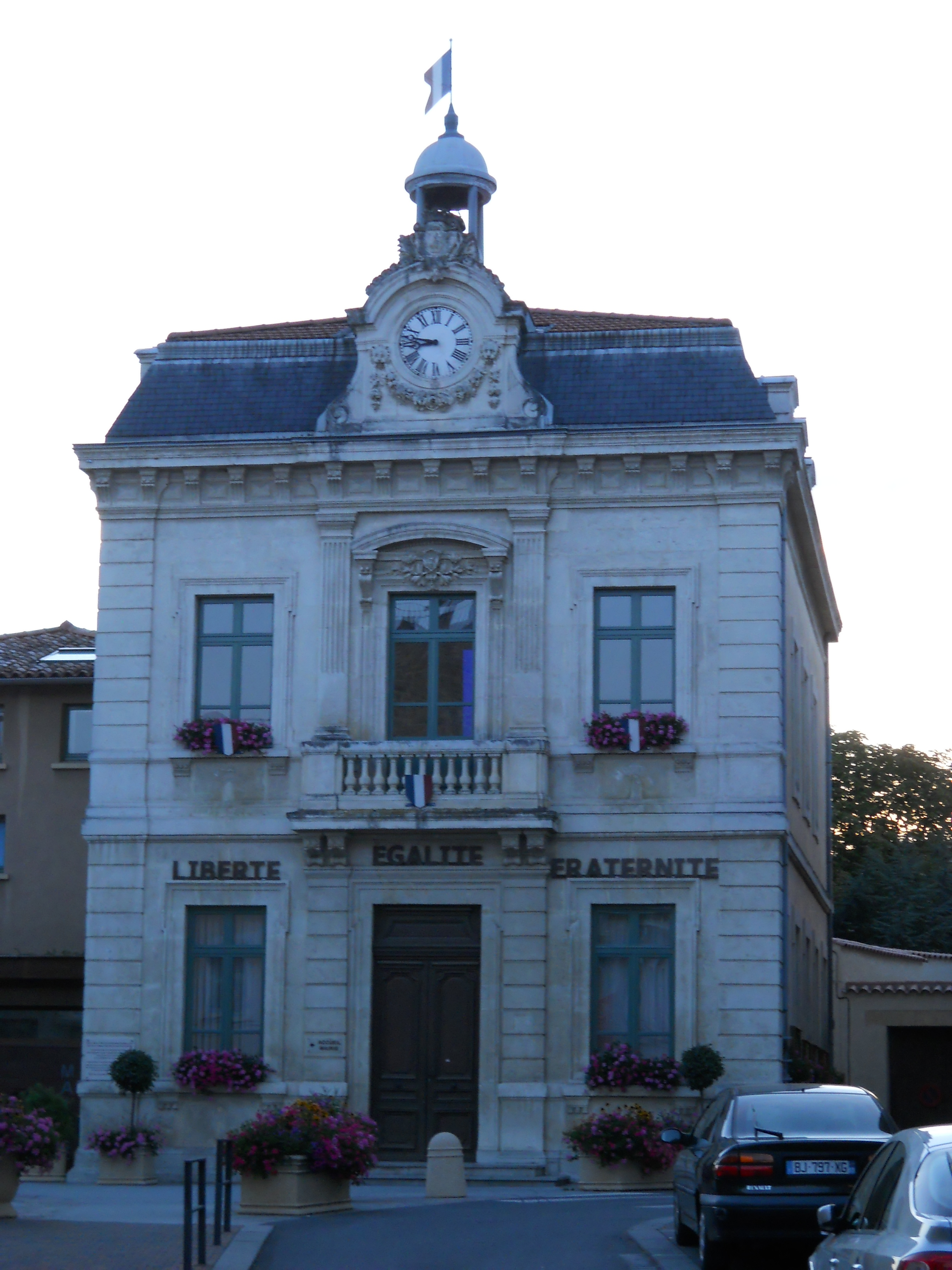 Town hall, Mornant, Rhône, France